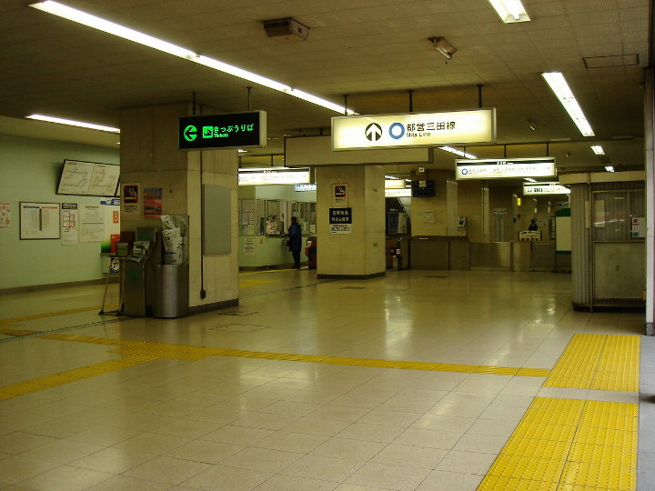 Nishi-Takashimadaira Station gate,Toei-Mita line.